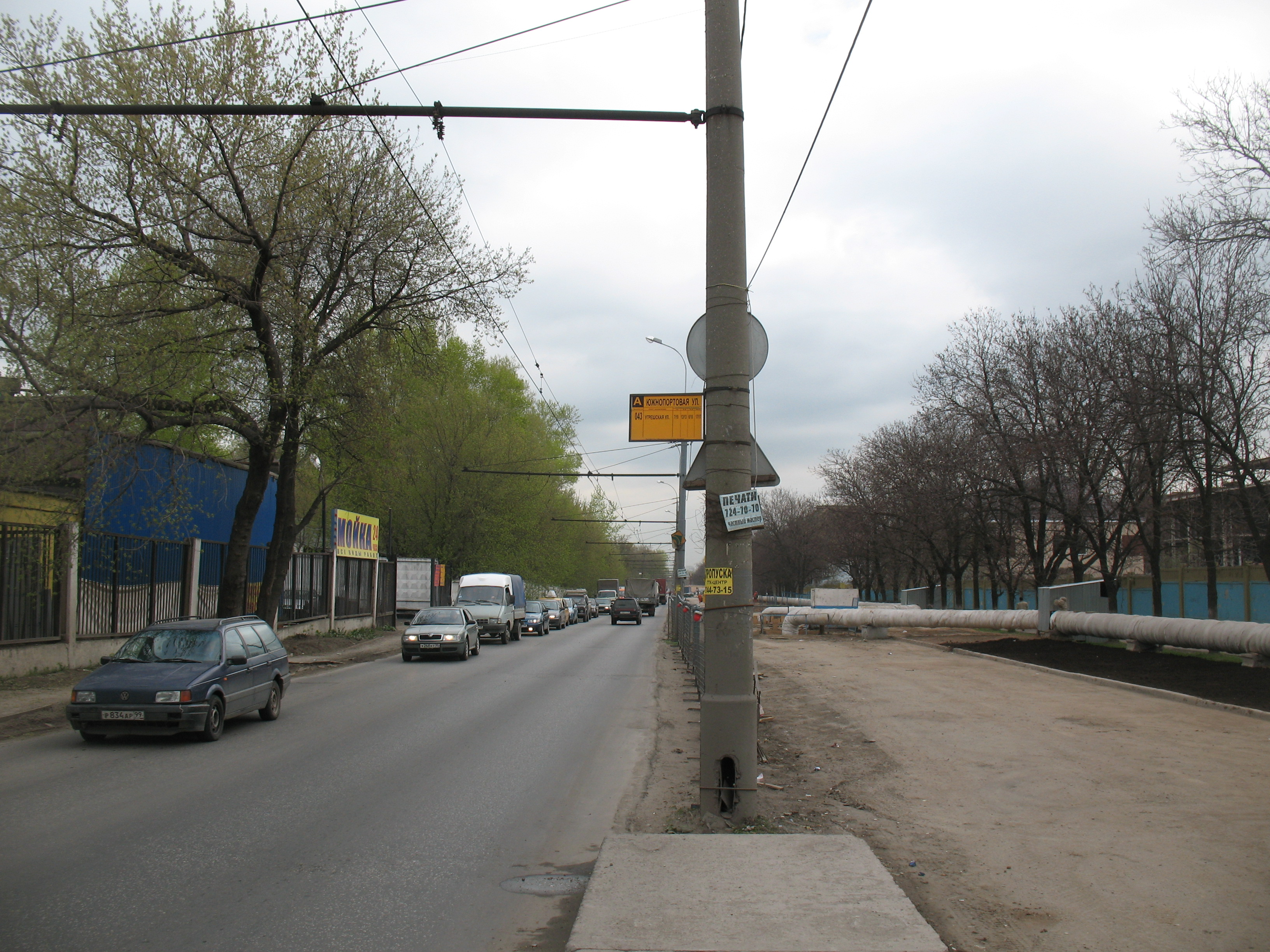 Temporary close of tramway line in 2007